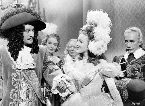 Promotional still from the 1947 film Forever Amber Caption reads as follows: 10. Amber marries the aging Earl of Radclyffe (Richard Haydn), right, thinking a title may win Bruce. At a ball in Whitehall Palace the King become more attentive than ever. In photo, L-R: George Sanders, Linda Darnell, and Richard Haydn